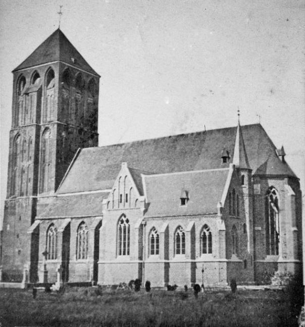 Cut version of Kerk naar het noord-westen naar een foto - Tegelen - 20207023 - RCE.jpg